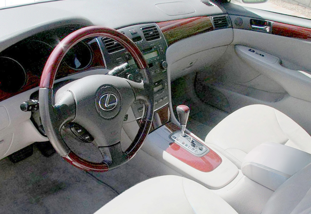 Lexus ES cabin, used in ES 300 and ES 330